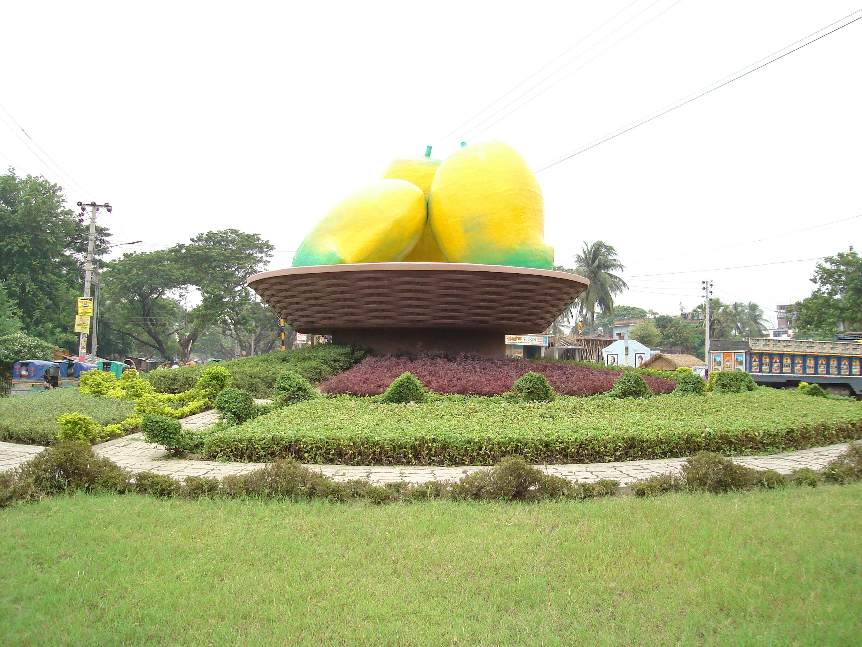 Mango round about at rajshahi, Bangladesh